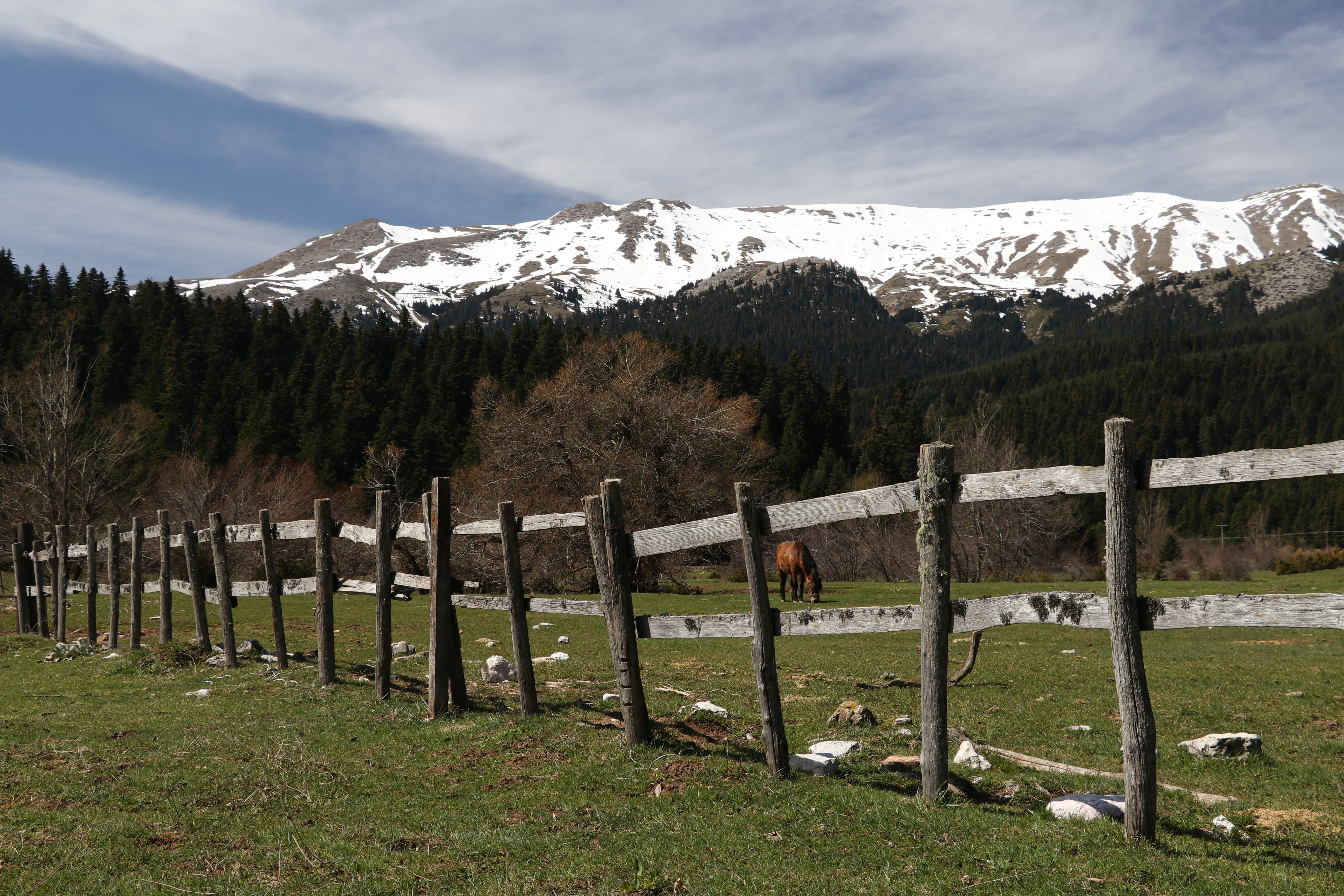 This is a photography of Natura 2000 protected area with ID GR1440002